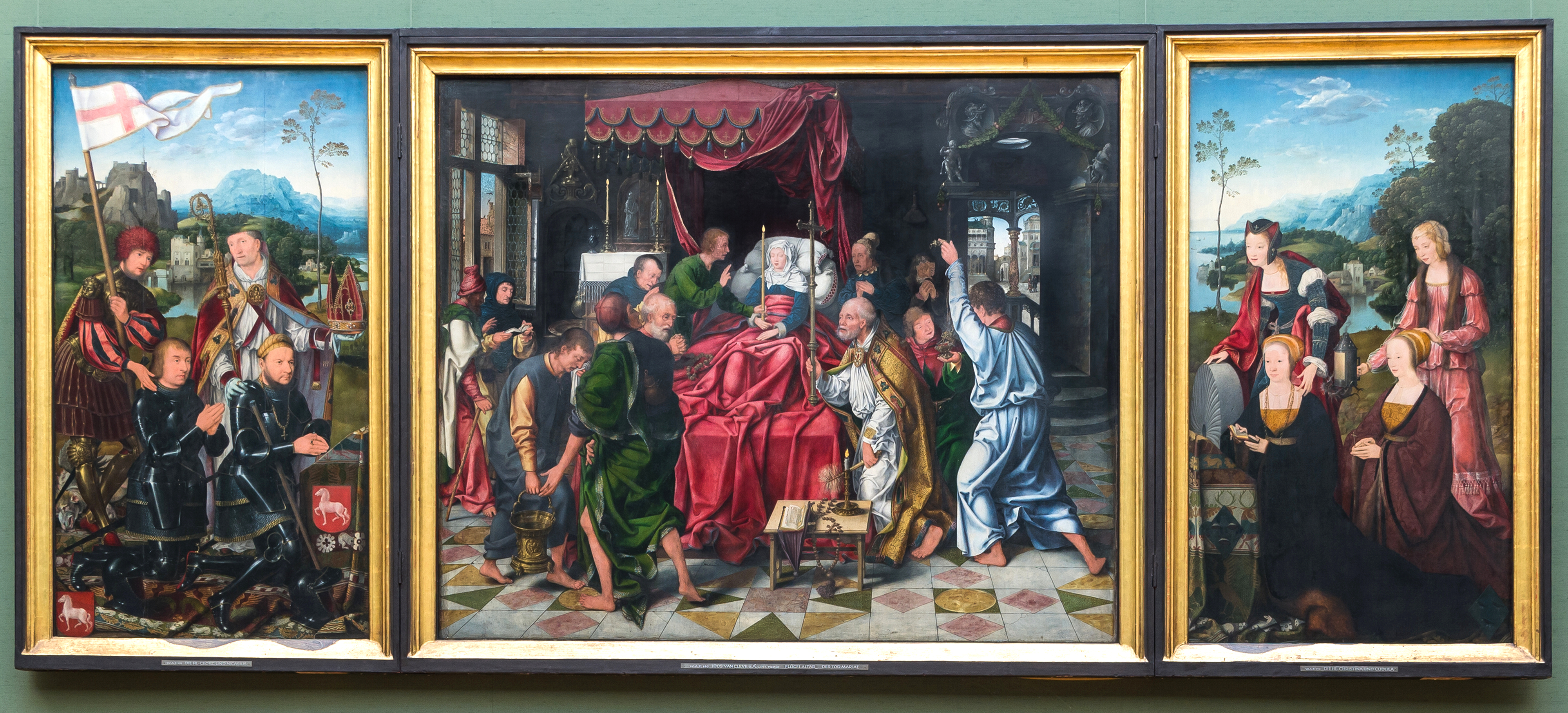 Saints George and Nicasius, with the donors Nicasius and Georg Hackeney. The death of Mary. Saints Christina and Gudula, with the wives of the donors, Christina and Sybilla Hackeney.